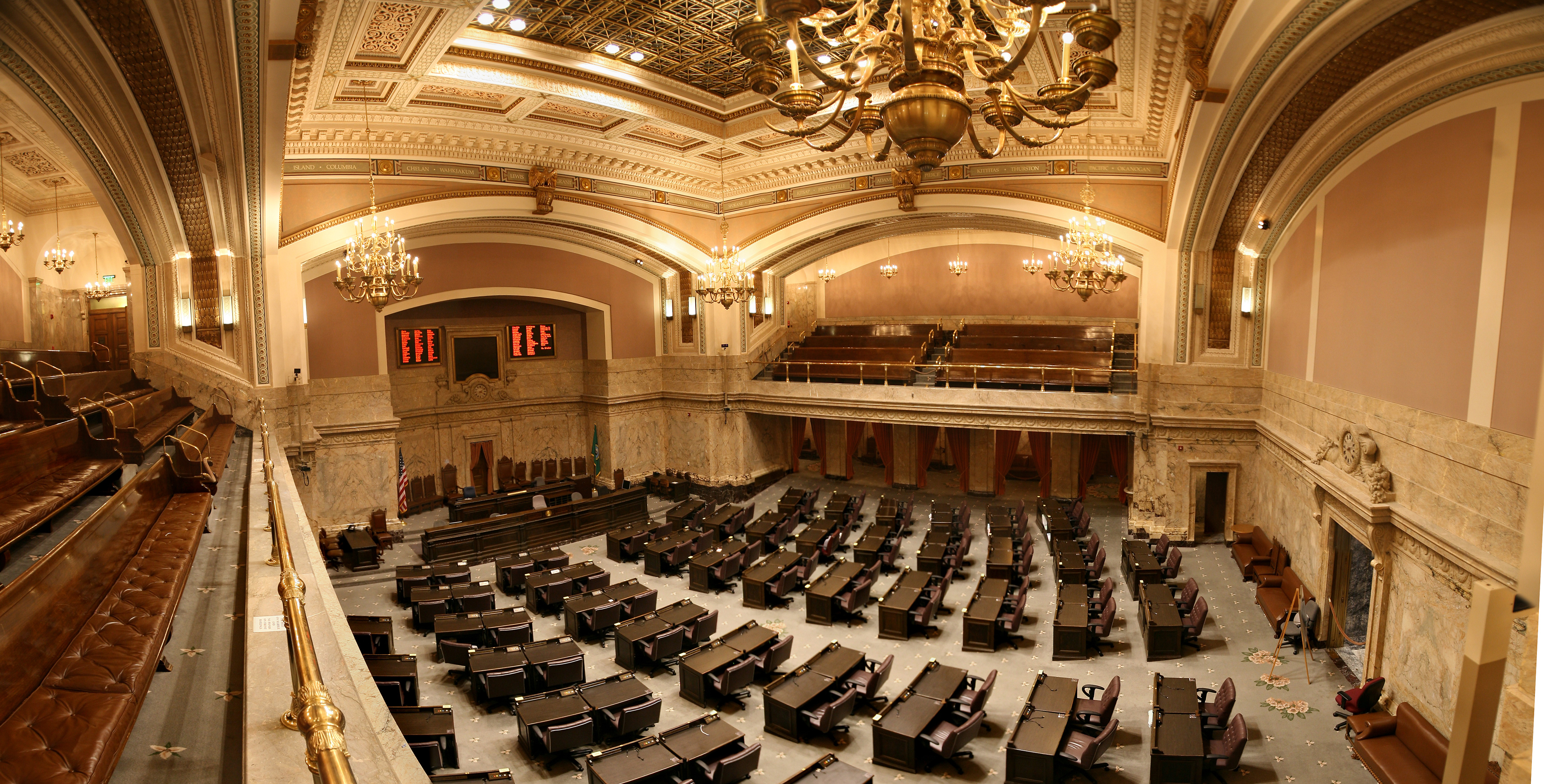 The interior of the Washington House of Representatives